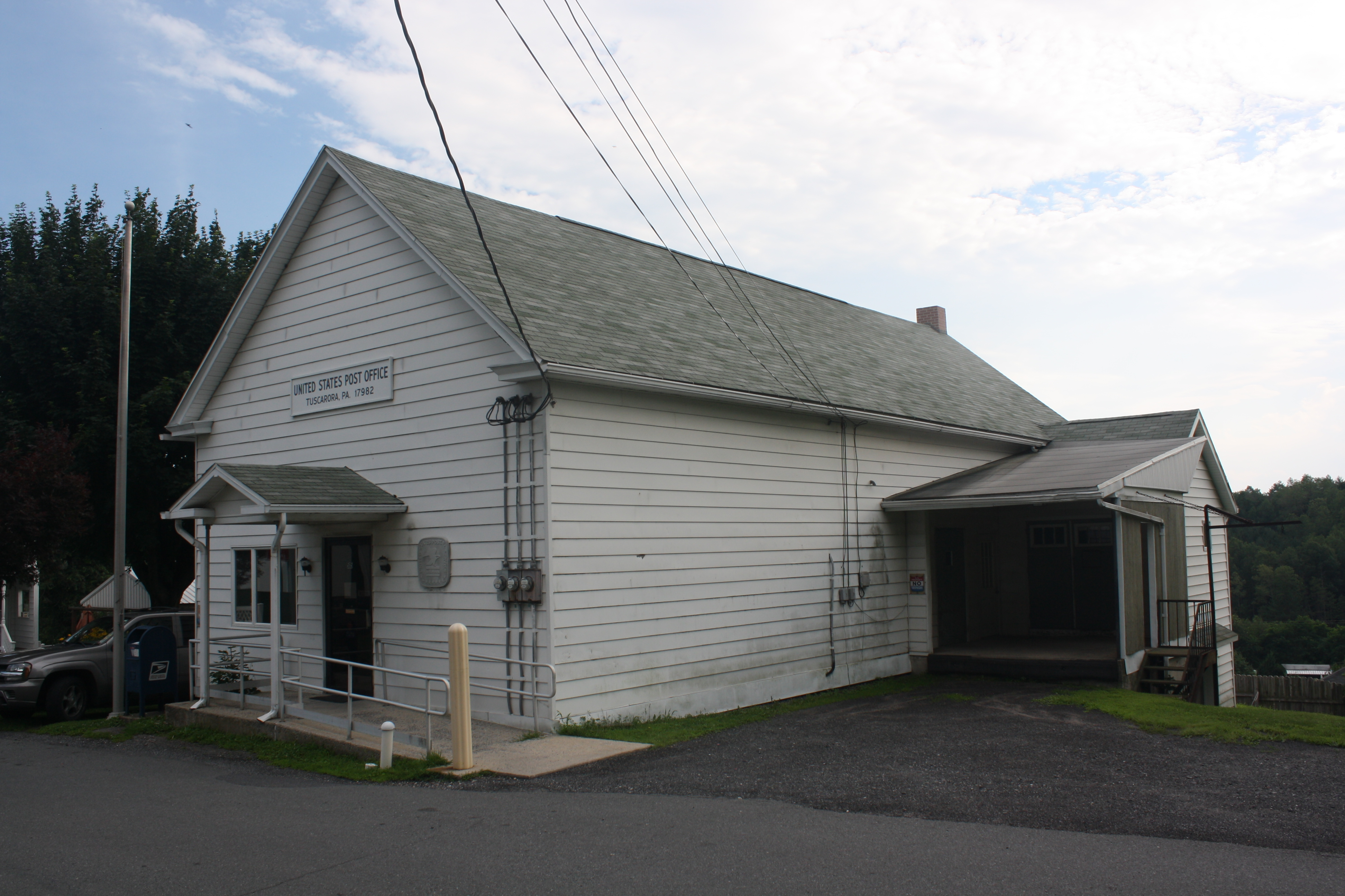 Post Office, 505 Strawberry St., Tuscarora, Schuylkill Township, Schuylkill County, Pennsylvania.